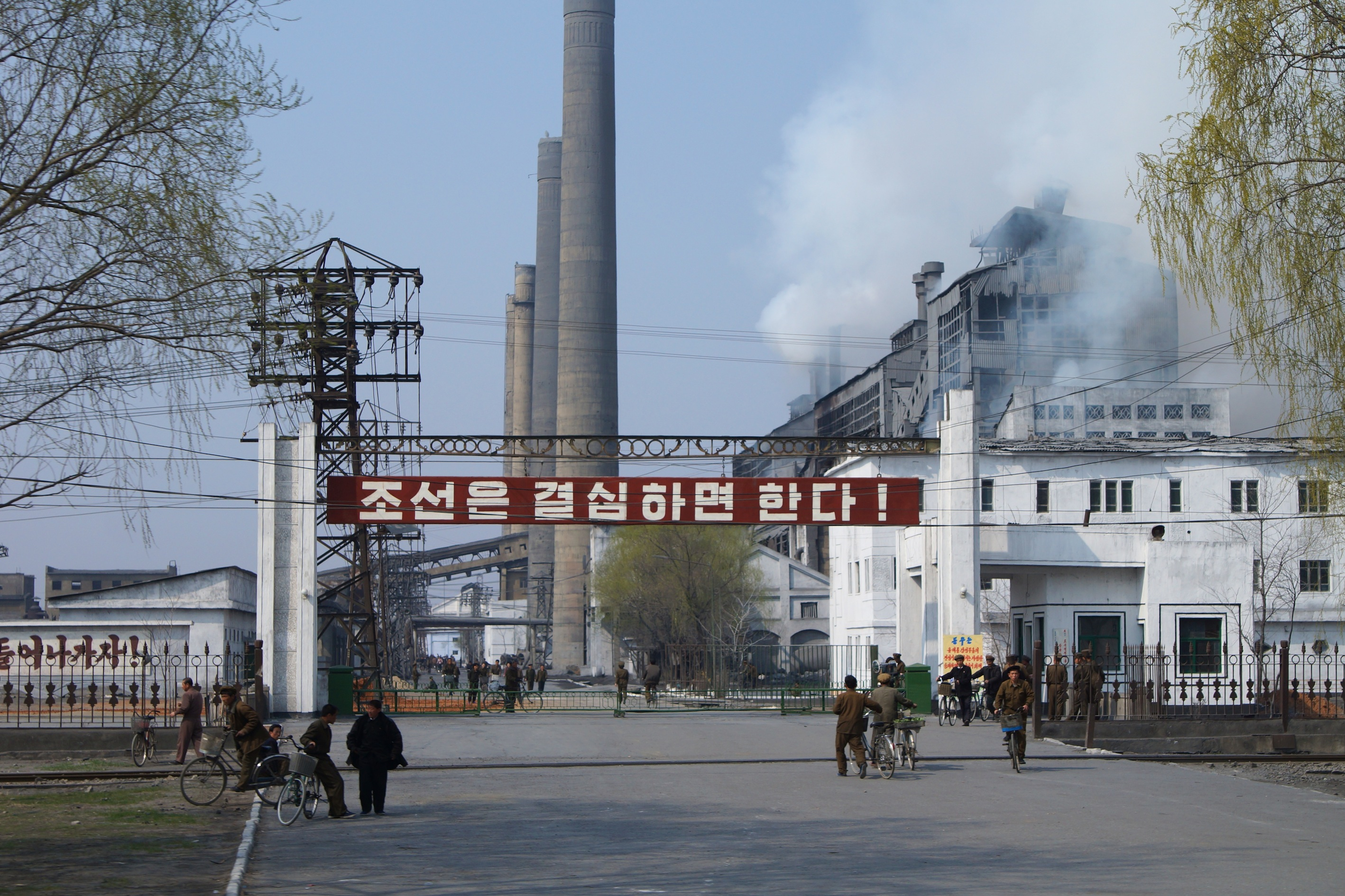 April 2012 trip to DPRK, North Korea for the 100th year birthday celebrations for Kim Il Sung - check out my North Korea blog at